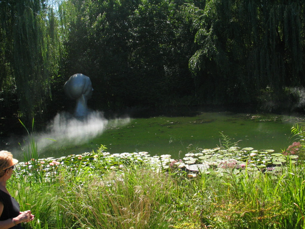 One of the exhibits of The Ground For Sculpture